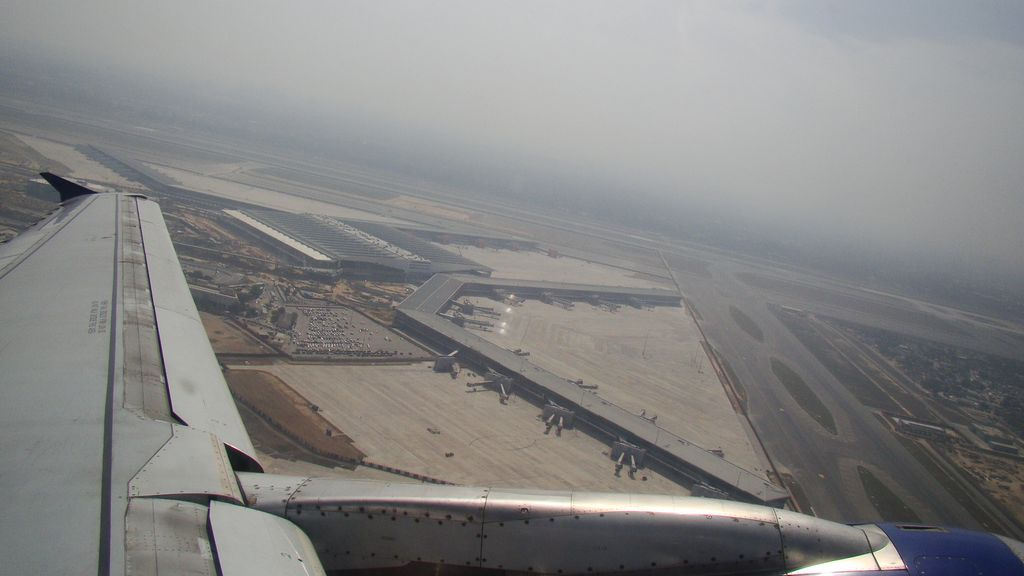 The under construction Terminal T3 at the IGI New Delhi Airport, I captured the image of the massive world class new terminal as my flight took off from Delhi.